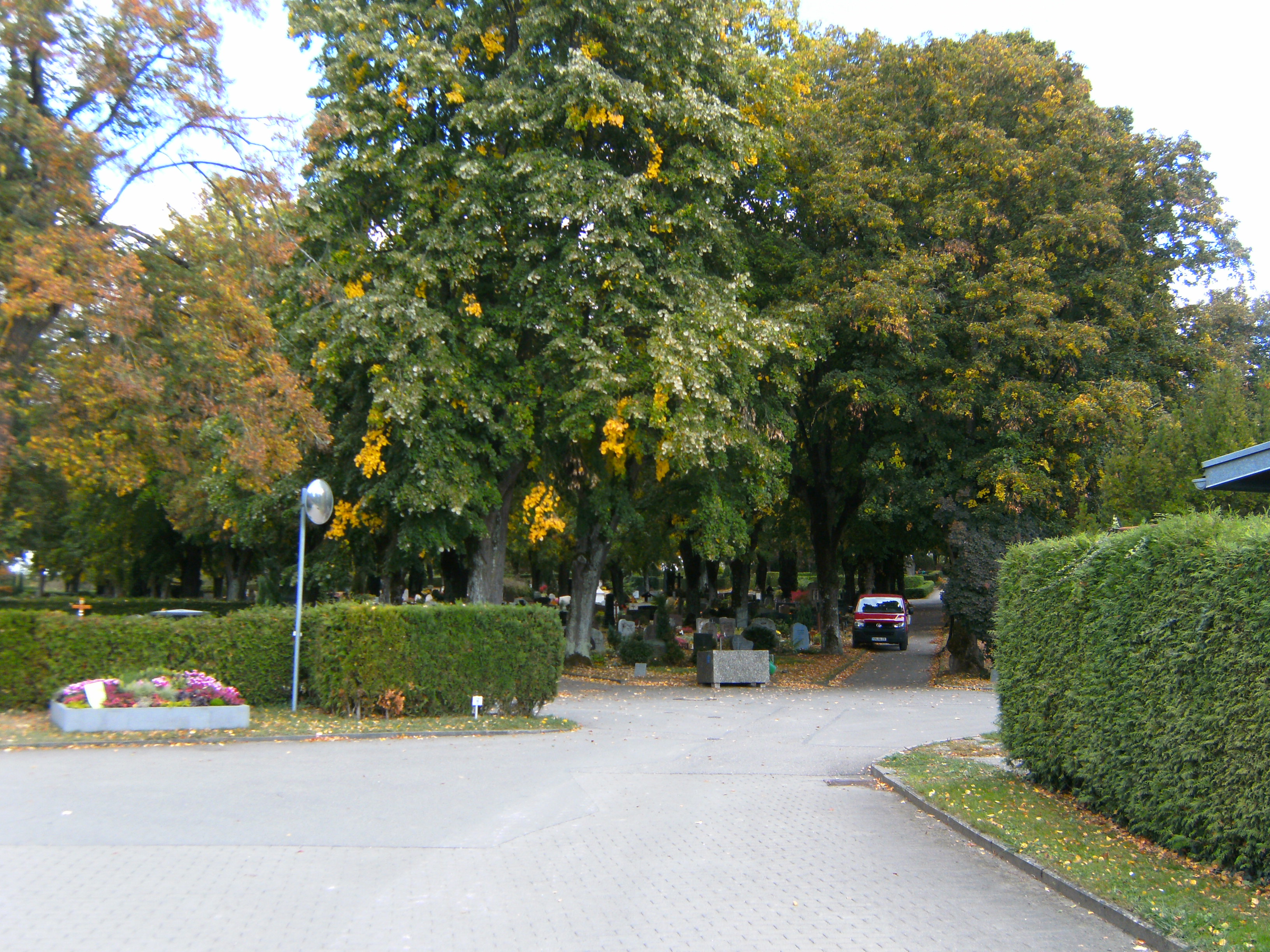 Hauptfriedhof Konstanz, Germany (main cemetery). Entrance Riesenbergweg.